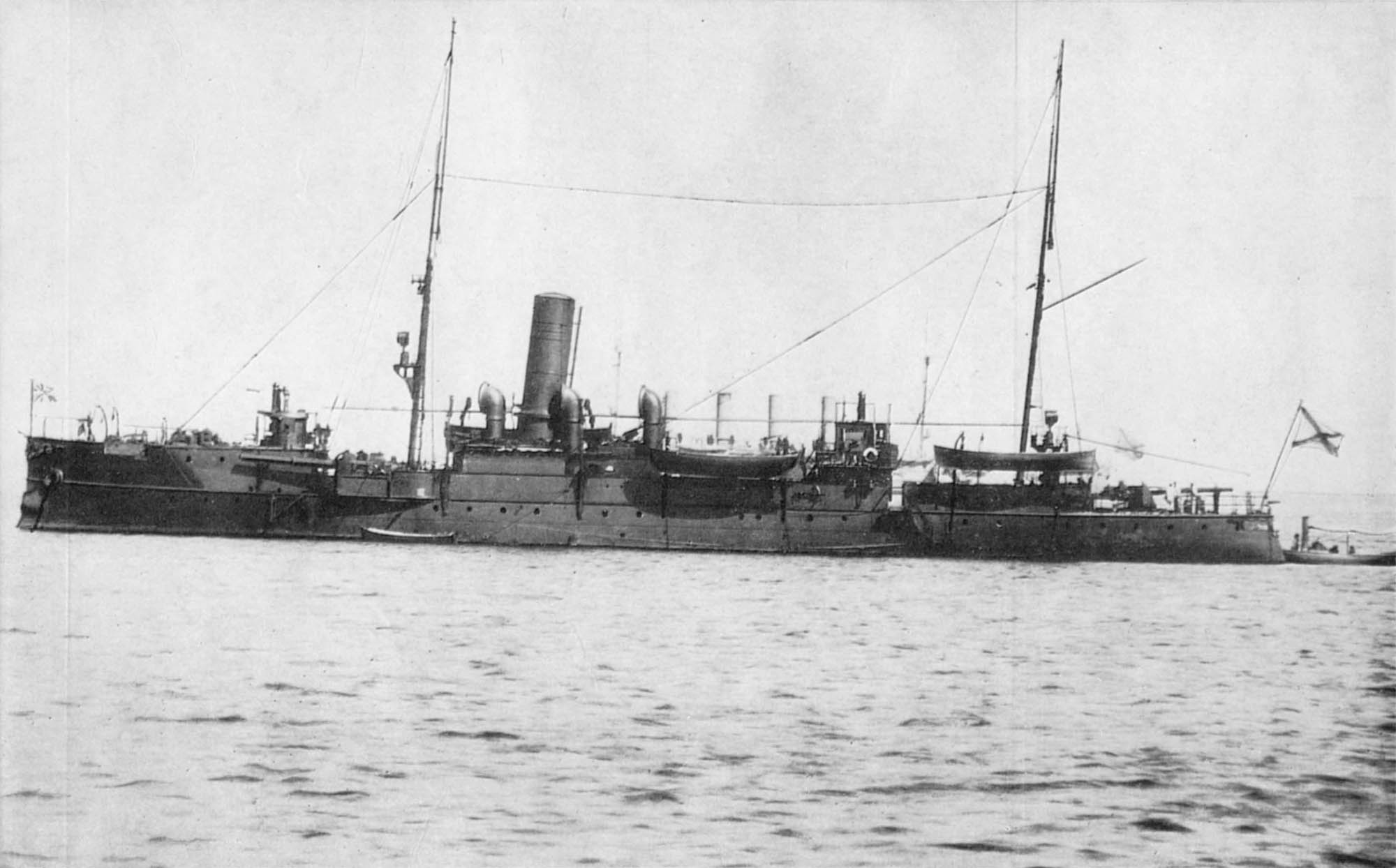 Imperial Russian gunboat Khrabryi.